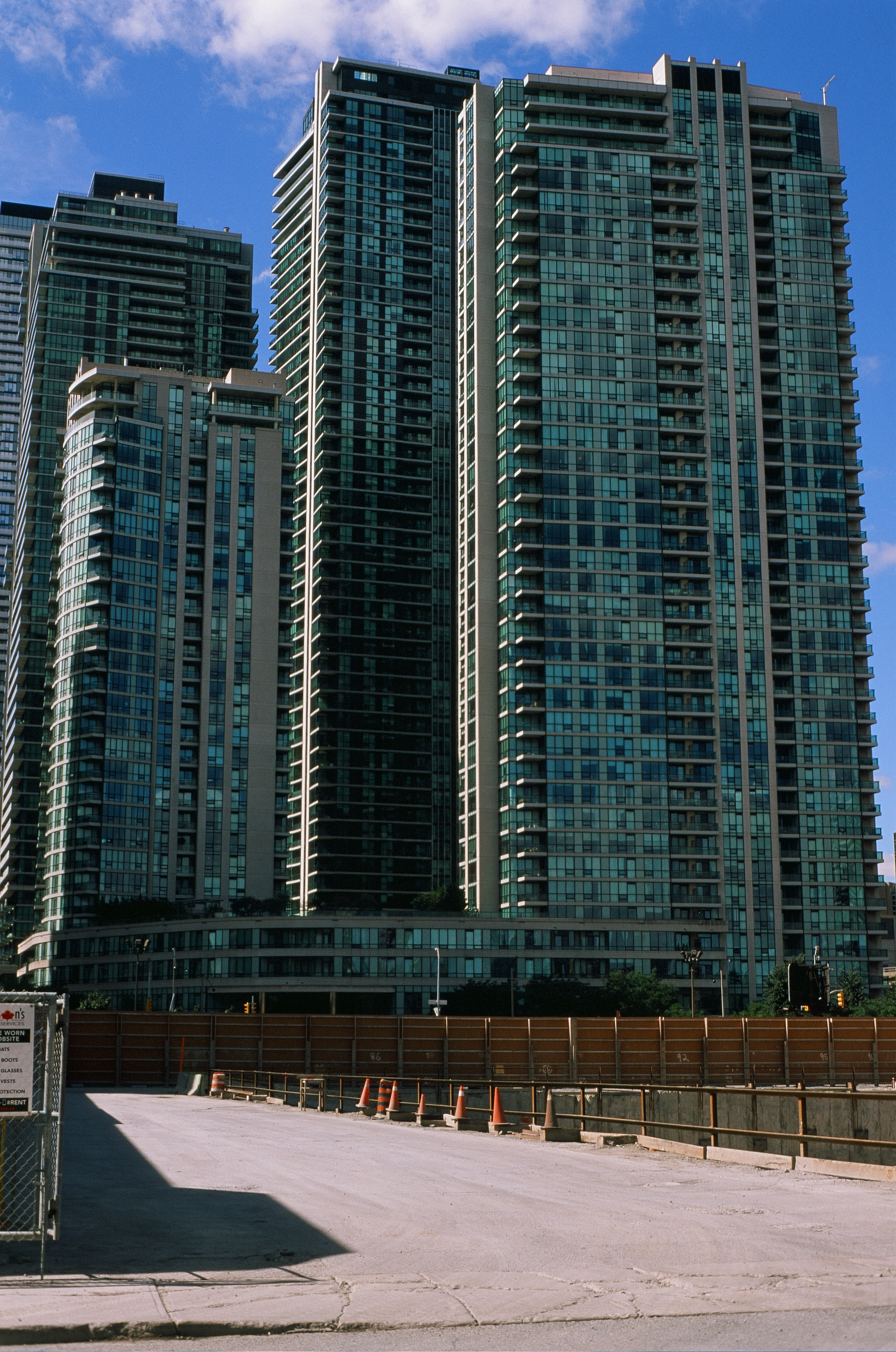 Pinnacle Centre